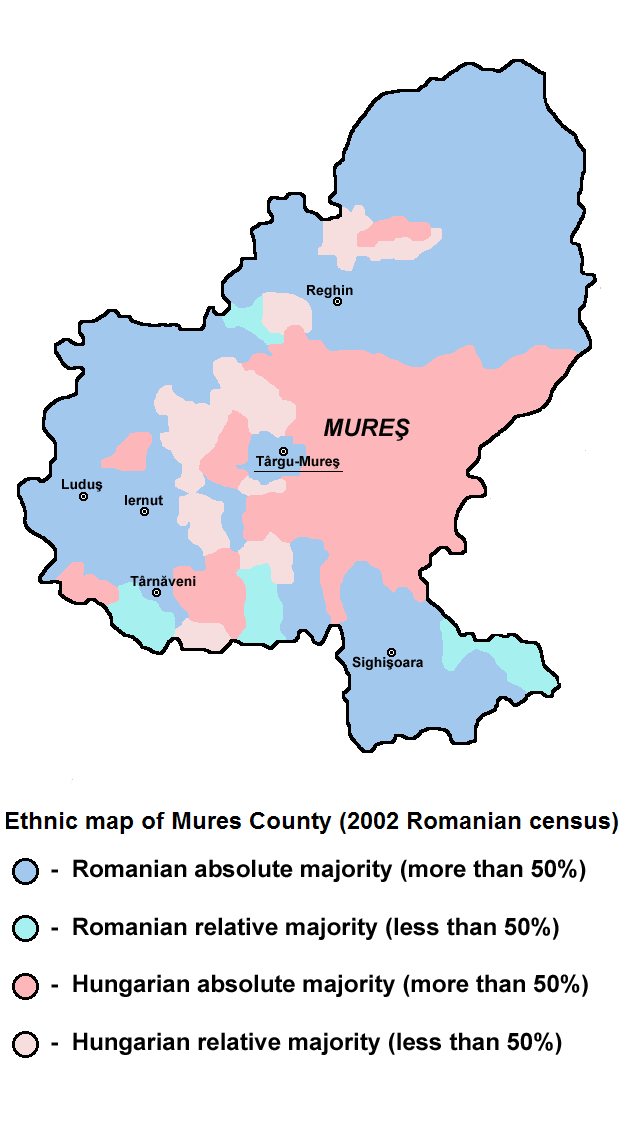 Ethnic map of Mures County in Romania (2002 census data by municipalities).